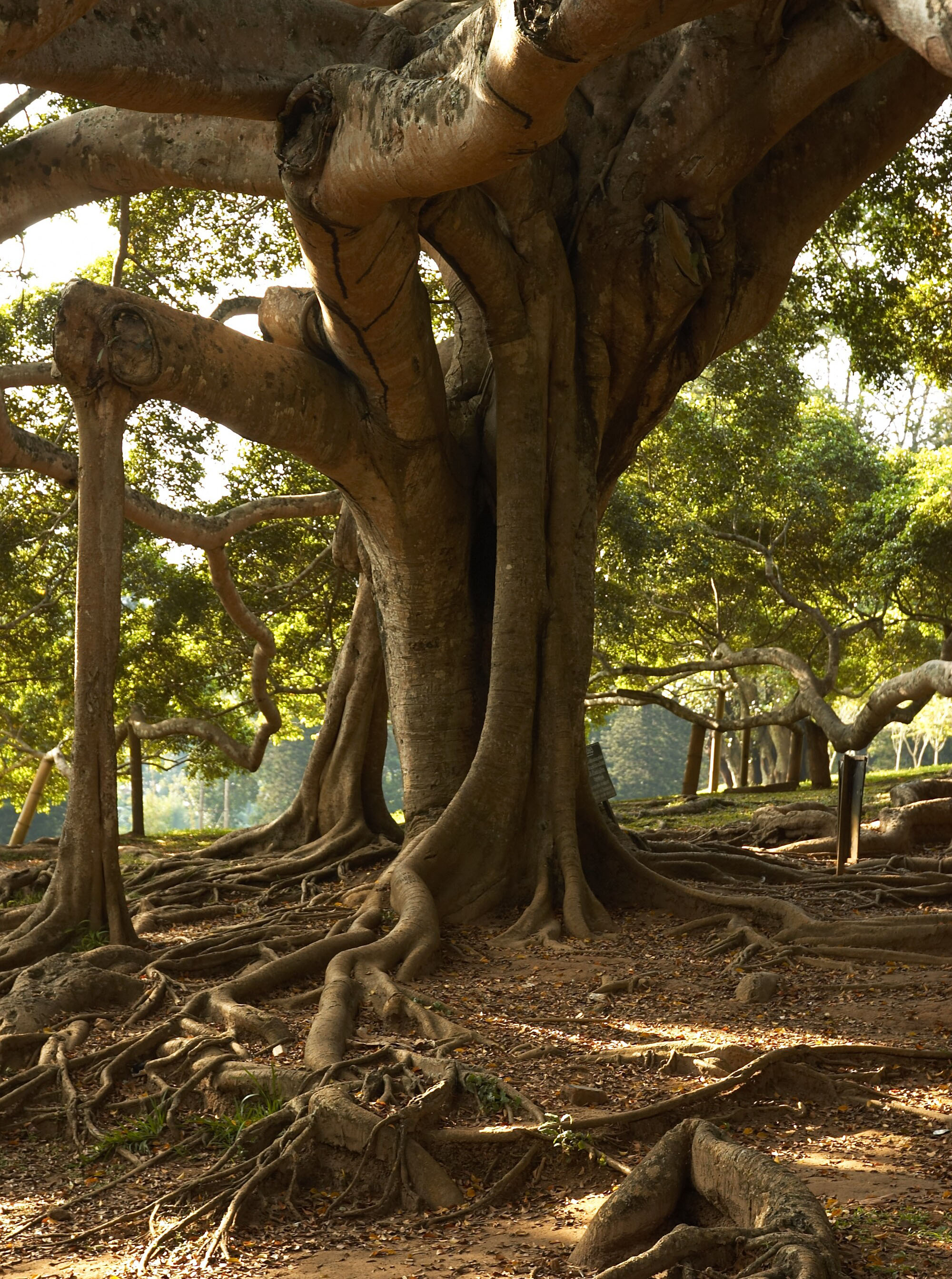 Stem of very large Ficus benjamina in the botanic garden at Peradenia, a suburb of Kandy (Sri Lanka).